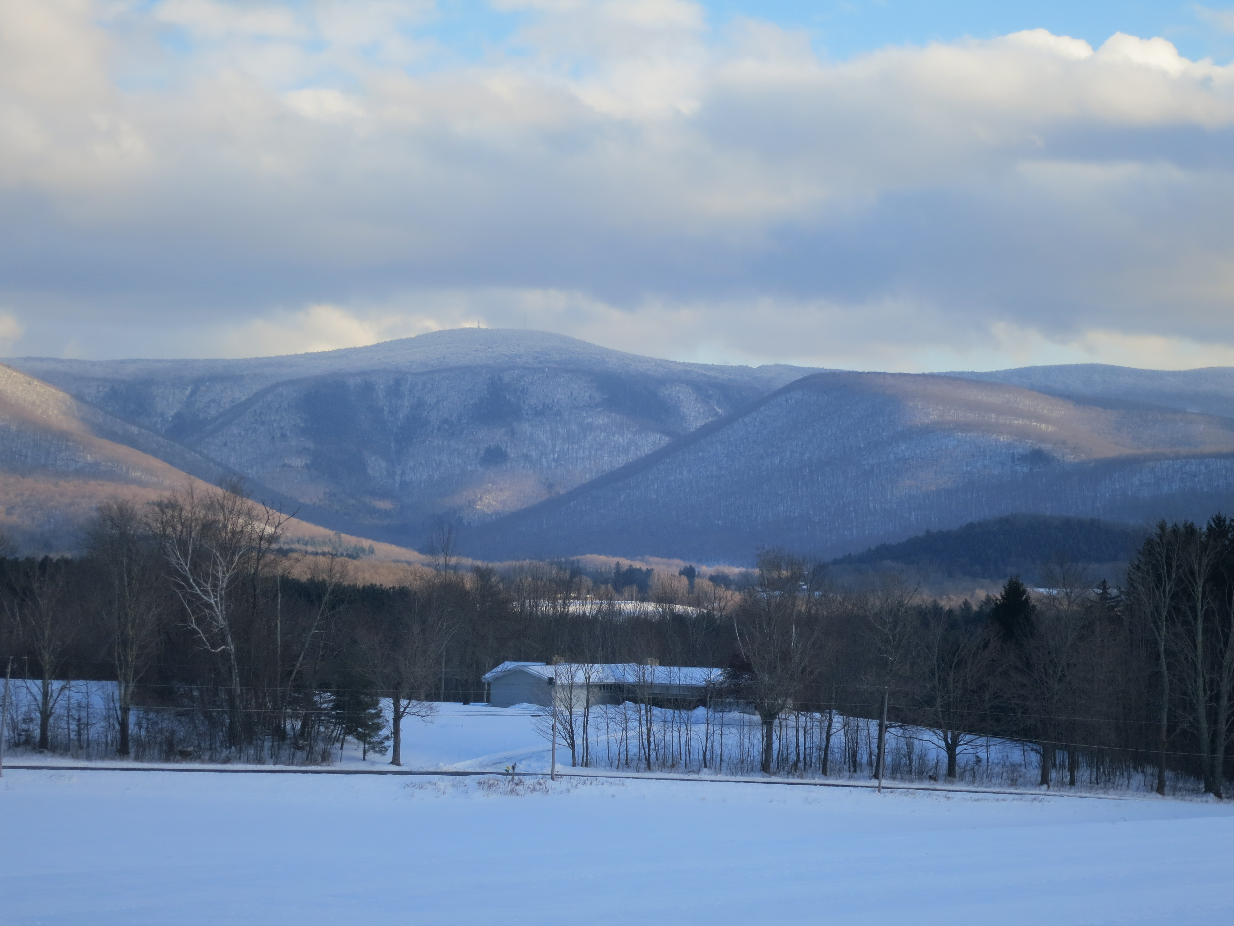 Mt.Greyock's glacial cirque, The Hopper